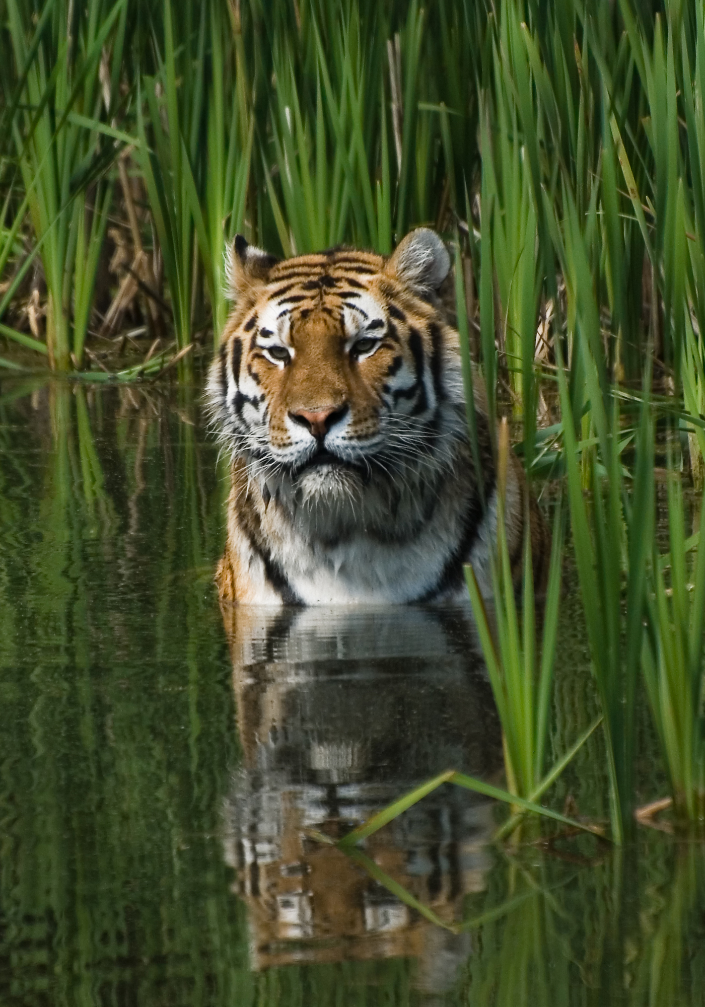 A tiger in the water. Six Flags, Jackson, New Jersey.